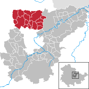 VG Nordkreis Weimar in District Weimarer Land, Thuringia